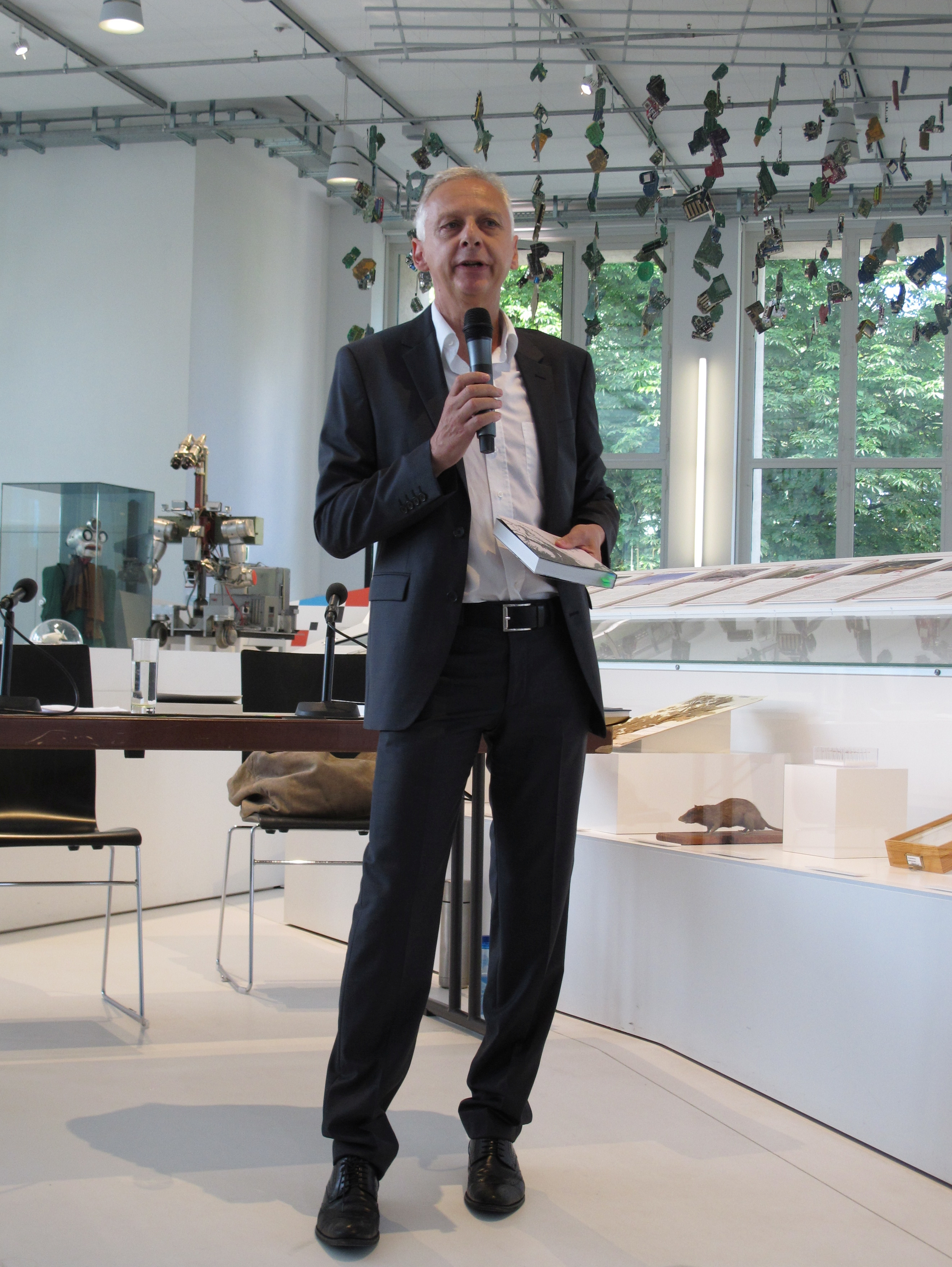 Helmuth Trischler in the special exhibition "Willkommen im Anthropozän. Unsere Verantwortung für die Zukunft der Erde", presenting the poetrybook "Lyrik im Anthropozän"